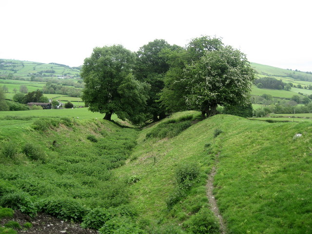 Offa's Dyke near Yew Tree Farm Very pronounced earthworks and ditch at this point - even more impressive when it was built.